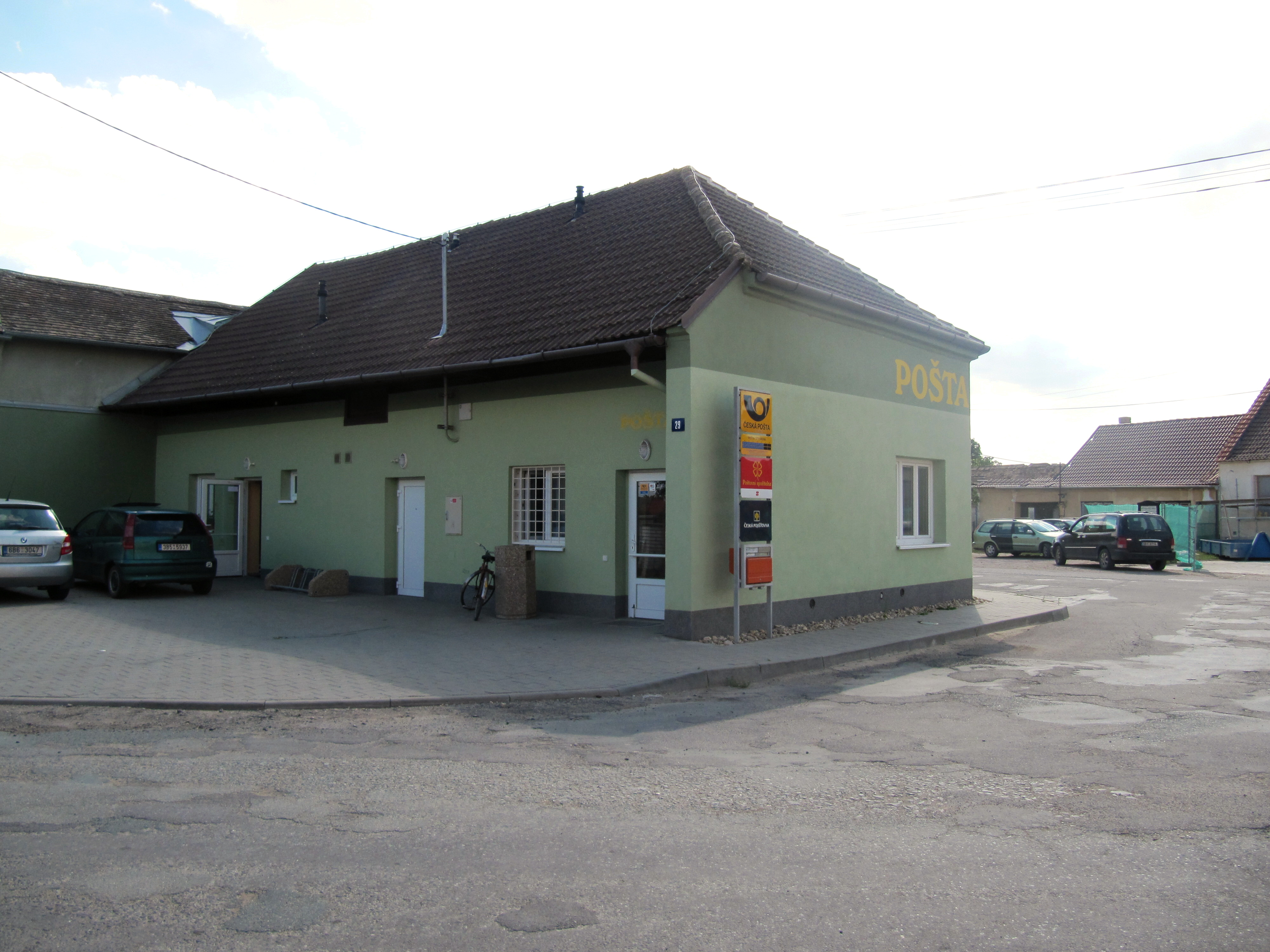 Hrádek in Znojmo District, Czech Republic. Post office.